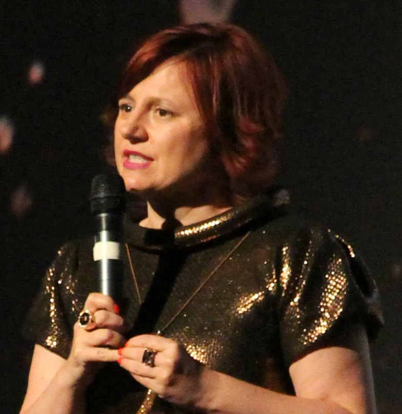 Clare Stewart, LFF Director, introduces Nocturnal Animals